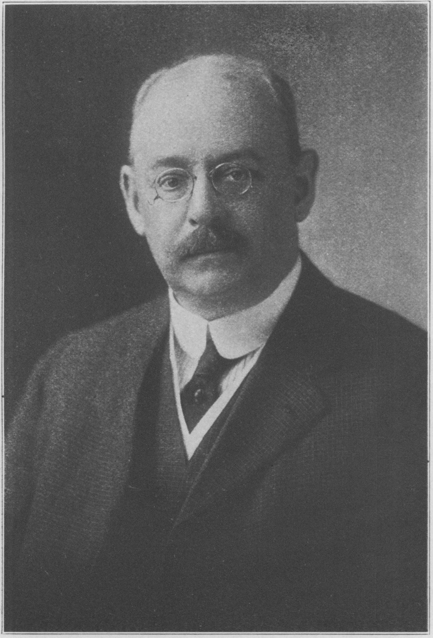 Philip Coombs Knapp (1858-1920), American psychiatrist and neurologist